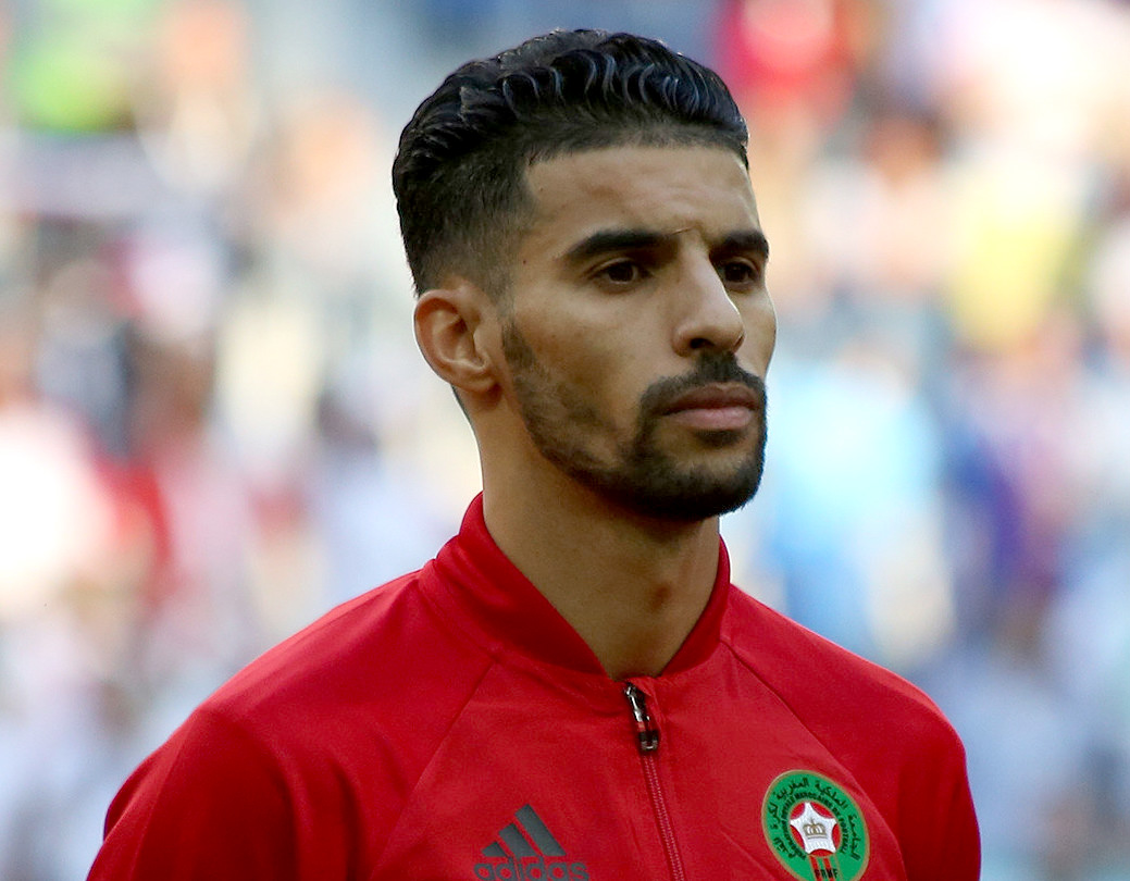 Iran-Morocco match, 2018 FIFA World Cup